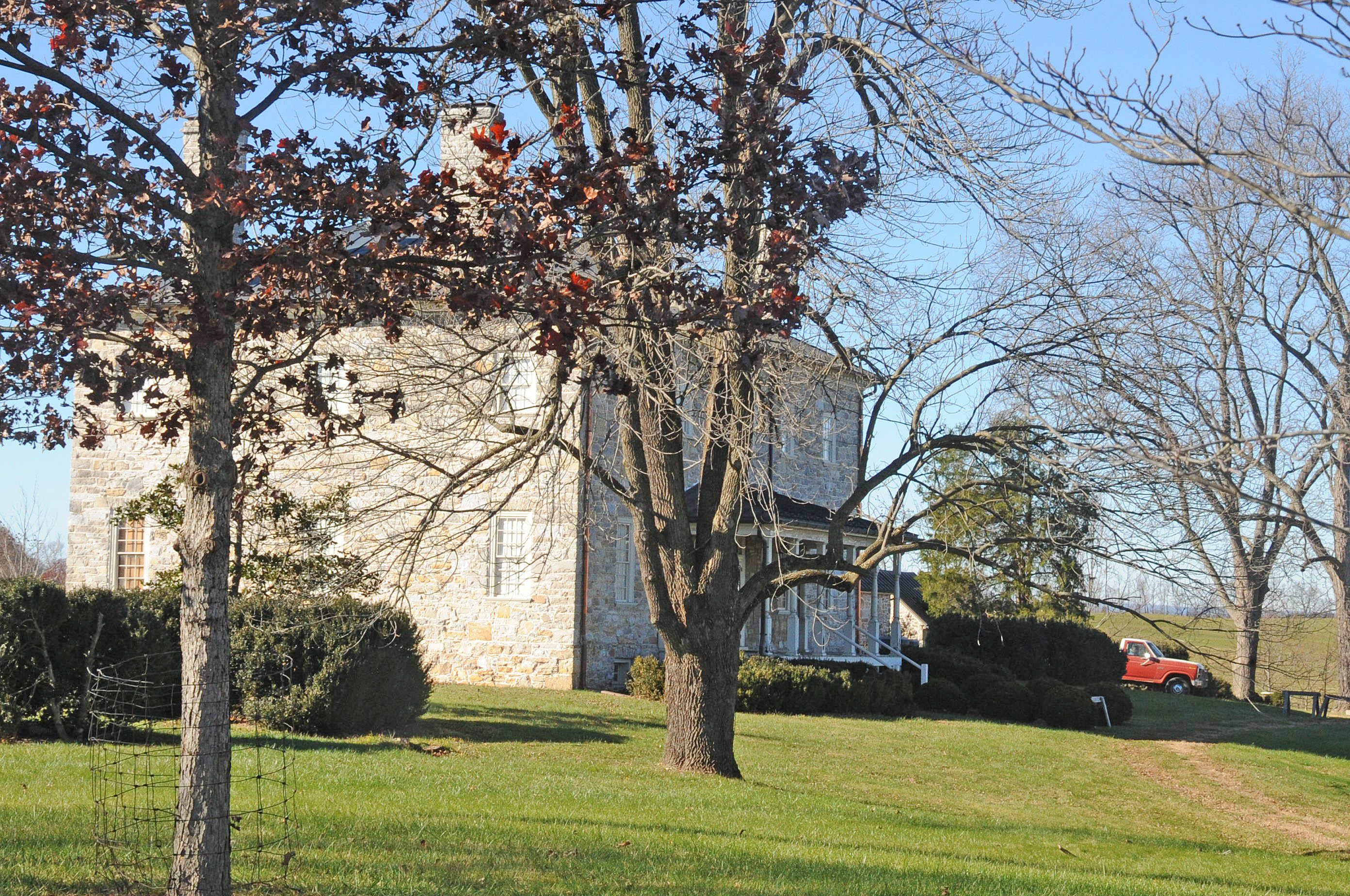 BUILT 1771-1772 BY REVEREND CHARLES THRUSTON WHO FOUGHT IN THER REVOLUTION AND WAS KNOWN AS THE “FIGHTING PARSON”. SINCE 1842 THE HOUSE HAS BEEN OWNED BY THE EARLE FAMILY